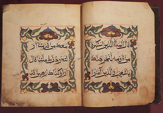 Qur'anic Manuscript - 11th century AH (China). Sini Script. Location: the Tareq Rajab Museum in Kuwait